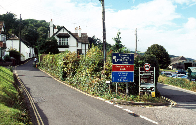 Bottom of Porlock Hill. The road leading away to the left is (despite appearances) the A39 at the commencement of the notorious 1 in 4 Porlock Hill. The road on the right is the alternative, less steep, toll road.